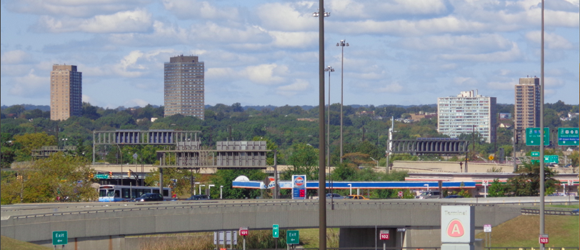 Highrise residential buildings Weequahic Park Newark